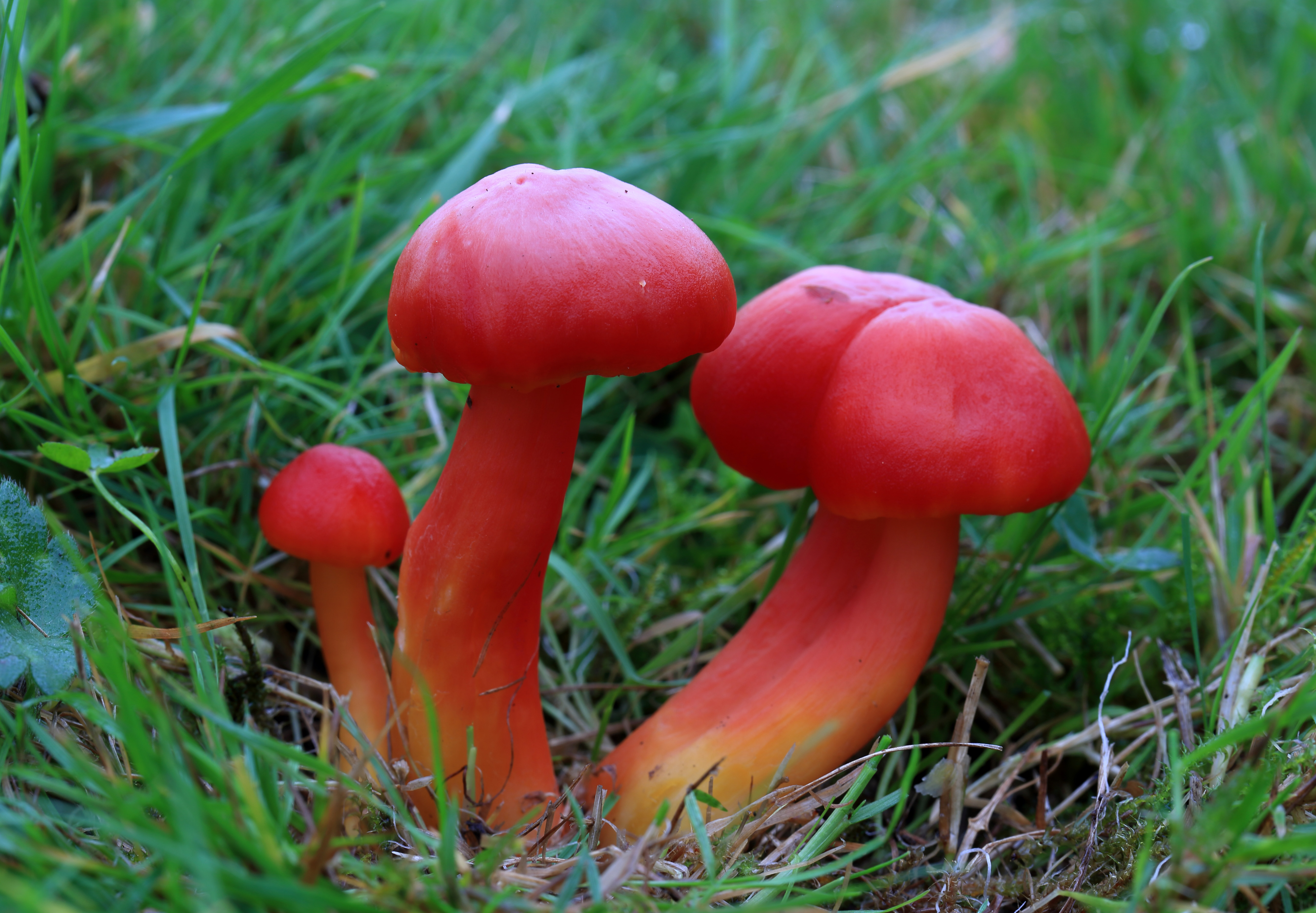 Hygrocybe coccinea, Scarlet Waxcap, taken in London, UK